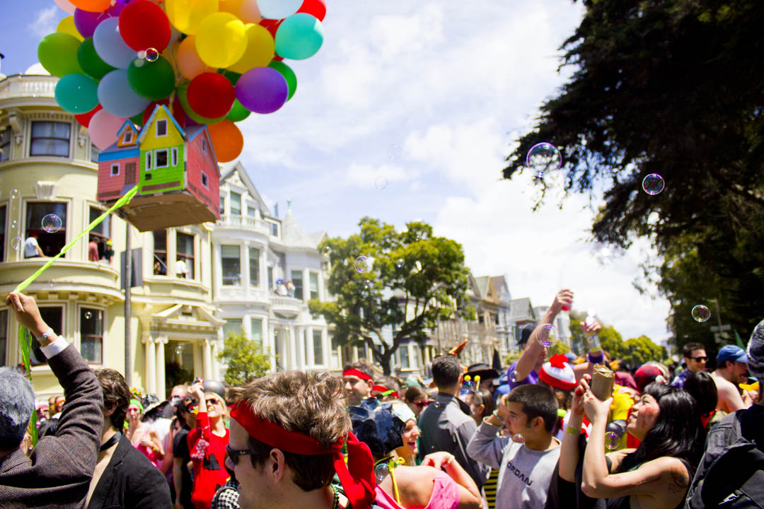 House parties run along the Bay to Breakers route. This photo was taken in 2011 near Panhandle Park. The Fellbury Grandstands (yellow house pictured on the corner of Fell and Ashbury) is the epicenter of B2B house parties.